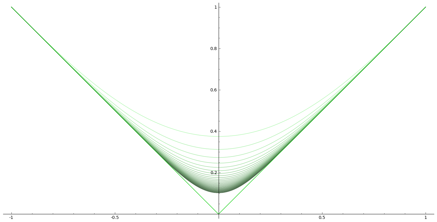 A sequence of polynomials converging uniformly to the absolute value function on [-1, 1]. The existence of such a sequence is a consequence of the Stone-Weierstrass theorem but it is also a step of the classical proof of this theorem.